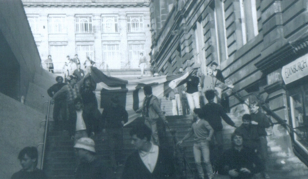 Walking down Waverley Steps